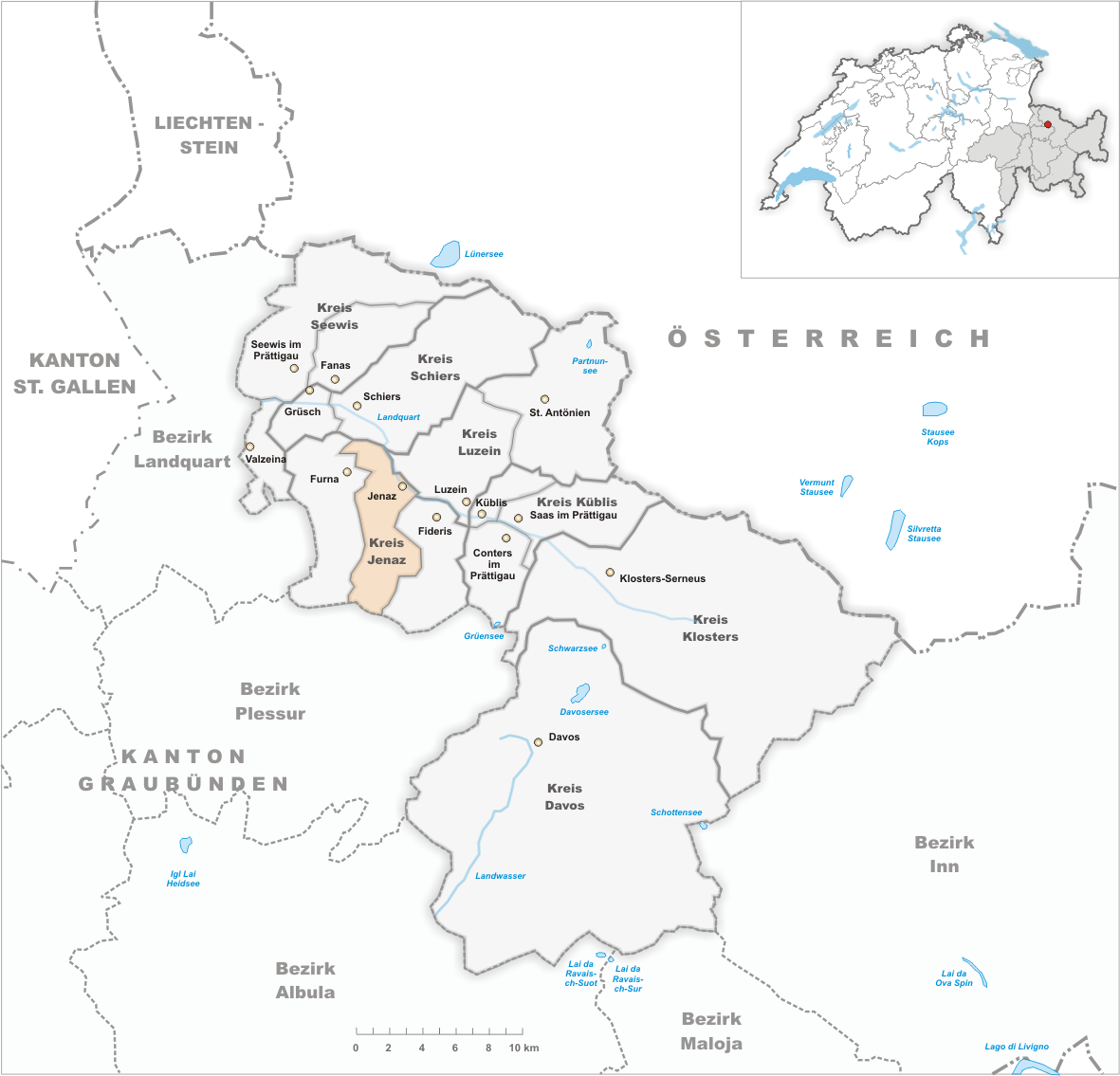 Municipality Jenaz